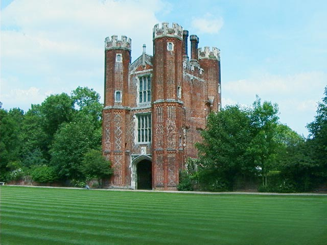 Tower at Leez Priory Originally an Augustinian Priory until the dissolution in 1536. Some of the original structures remain being incorporated into Lord Rich's grand manor house.